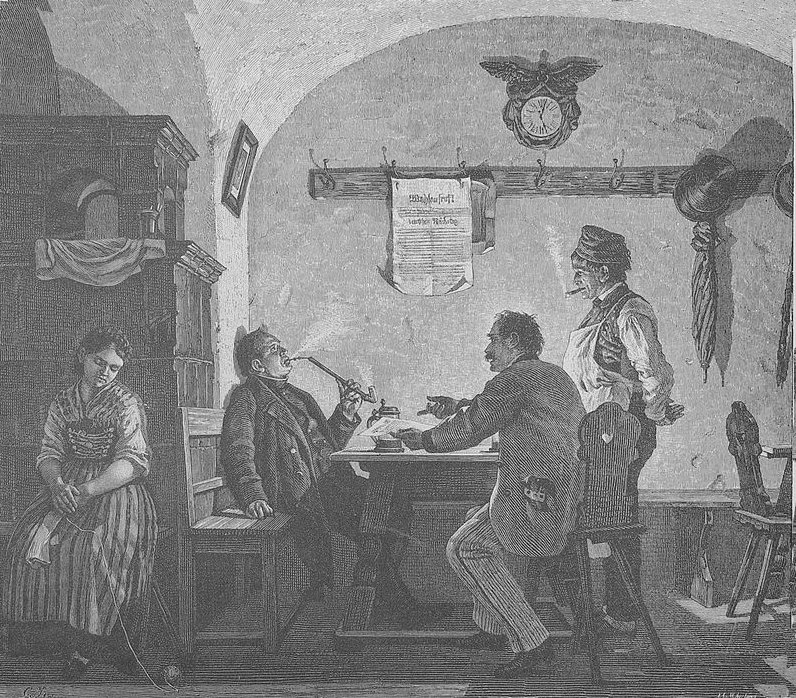 caption: "Auch eine „Wahlwühlerei“. Nach seinem Gemälde auf Holz gezeichnet von Karl Kronberger"